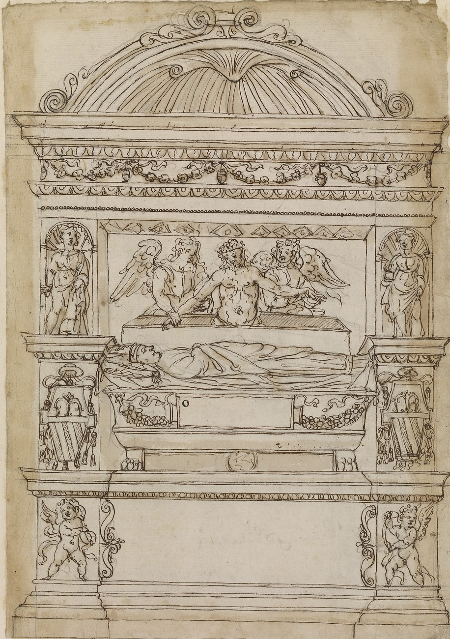 Drawing in the Royal Library in Windsor Castle which shows the original form of Giovanni Mellini's tomb in Santa Maria del Popolo that was dismantled in 1698. The only known picture of the tomb. Creator: Unknown 17th century Italian artist